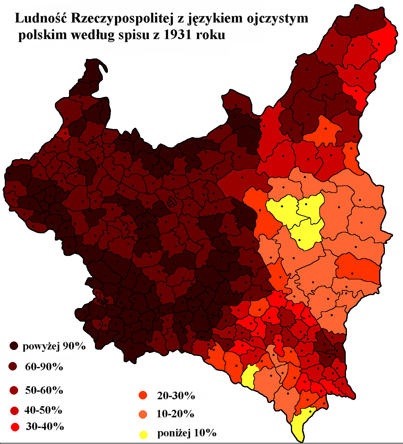 Polish language frequency in Poland in 1931